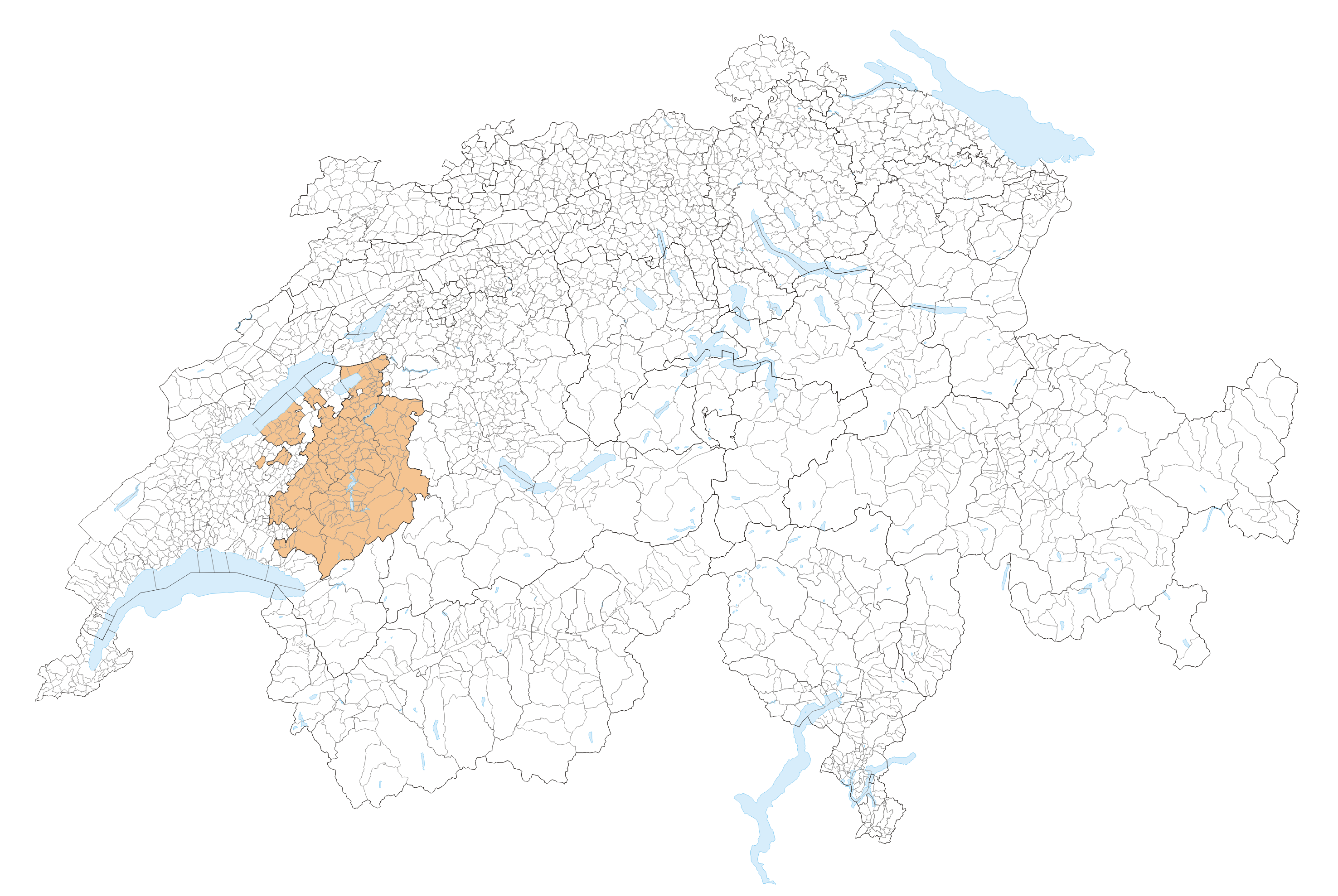 Kanton Freiburg